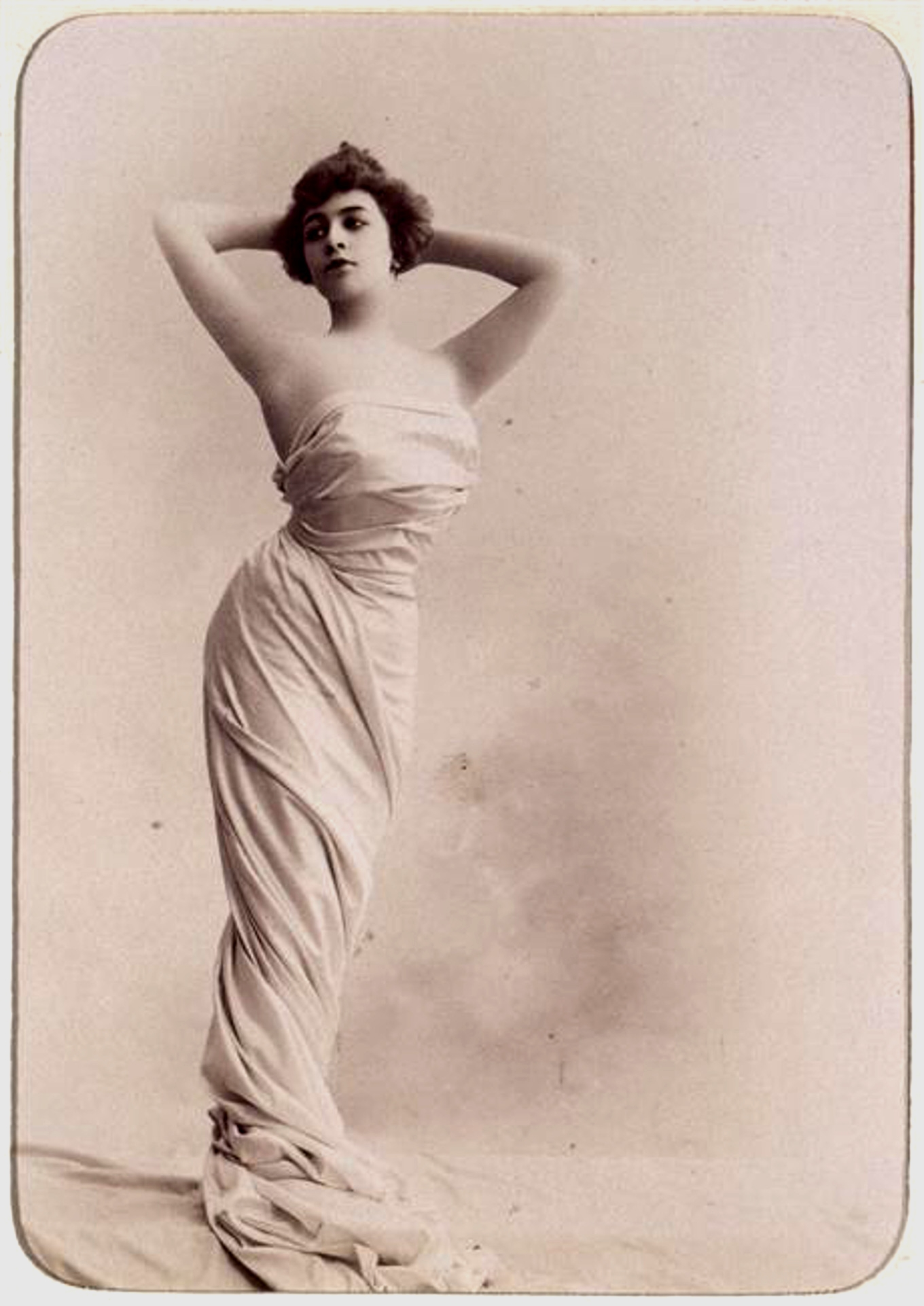 Photograph of Odette Valery by the Reutlinger Studios in Paris. The last of the three Reutlingers (two brothers and a son) died in 1937.[1]